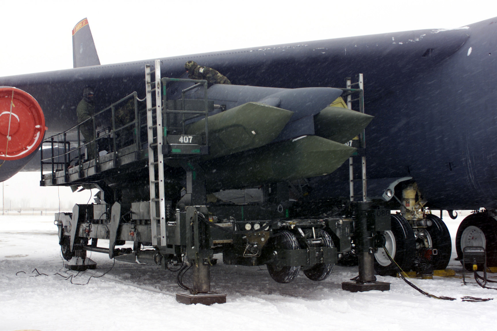 Some AGM-129 ACM cruise missiles get loaded onto a B-52 Stratofortress